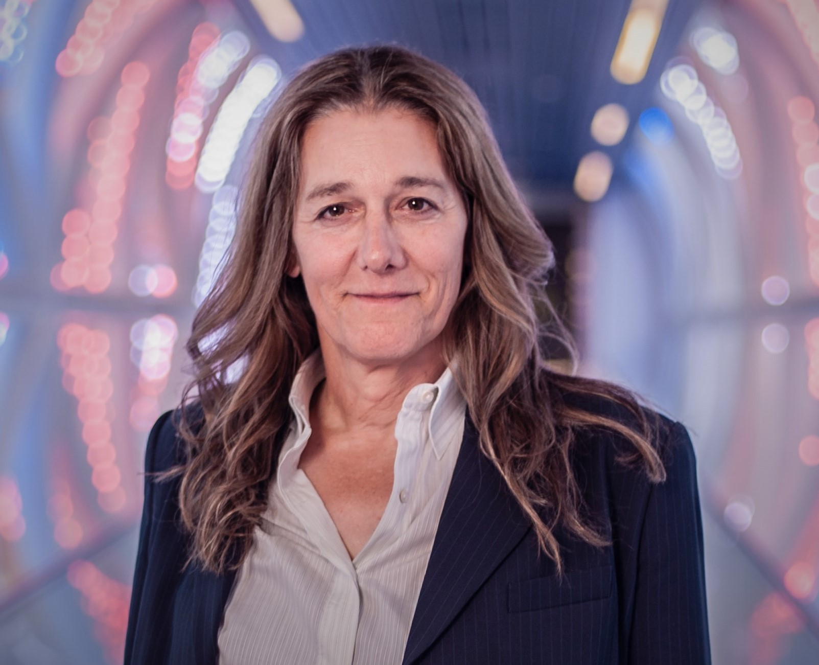 SILVER SPRING, MD -- SEPTEMBER 12: Martine Rothblatt, CEO of United Therapies and former CEO of SiriusXM, is the highest paid CEO in the country. Rothblatt founded UT after her daughter was diagnosed with a rare lung disease. She is also transgender and married to the same woman for 32 years…. photo by Andre Chung